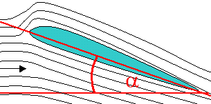 Wing in airflow. Showing angle of attack.